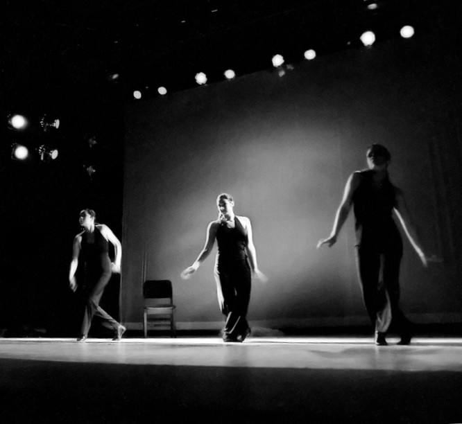 Jazz dancers adapted from flickr photo by Alvaro Arriagada.